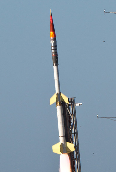 Terrier-Orion launch